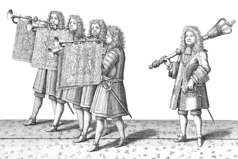 Trumpeters and a mace bearer at the coronation of King James II of England in 1685.